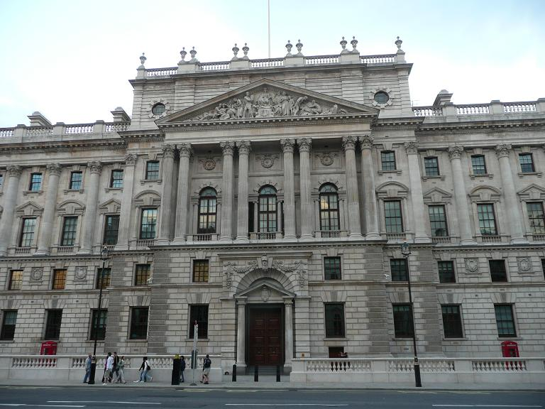 EM Treasury